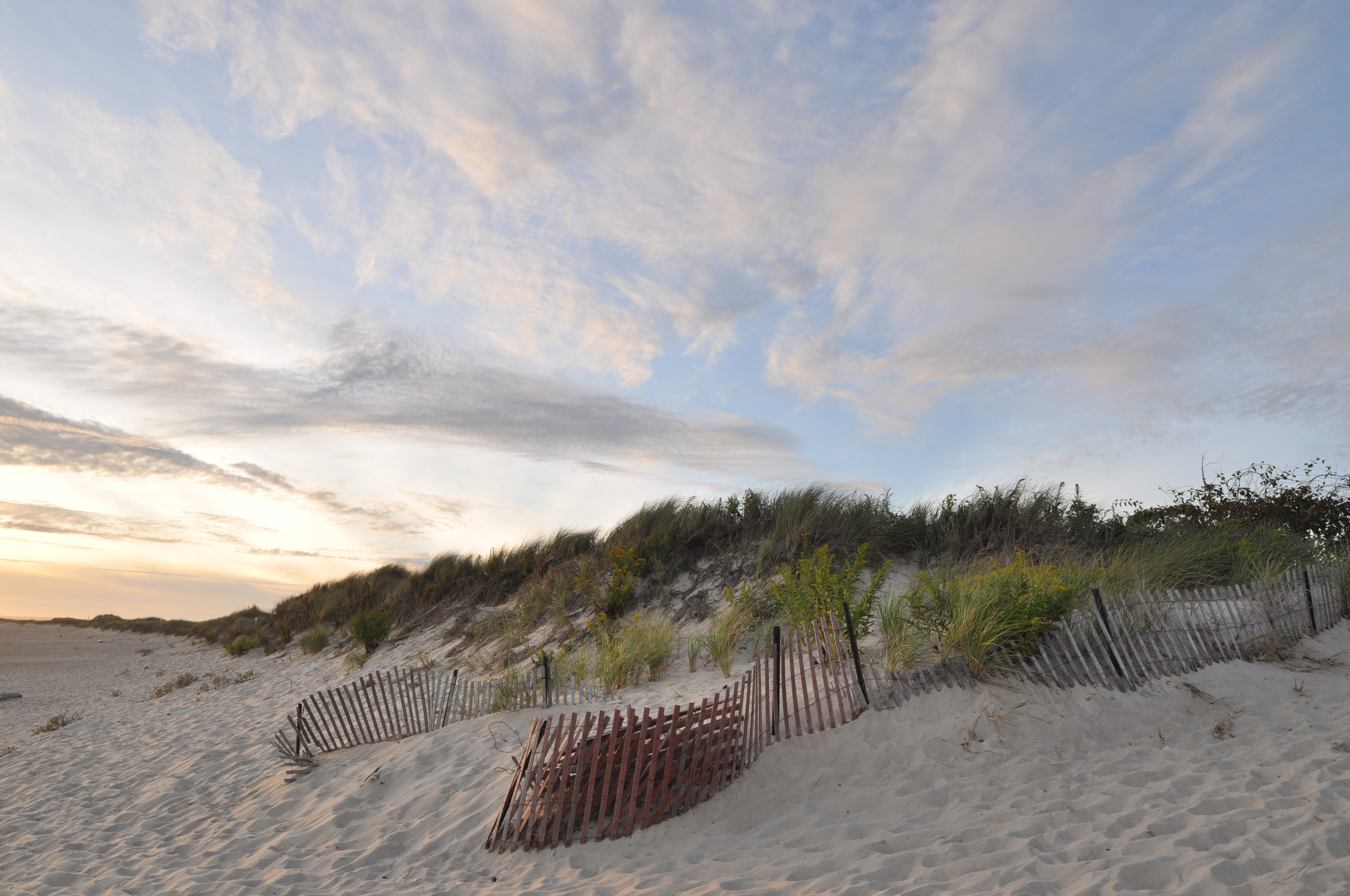 Sand dunes along Napatree Point, Rhode Island, USA, at sunset.